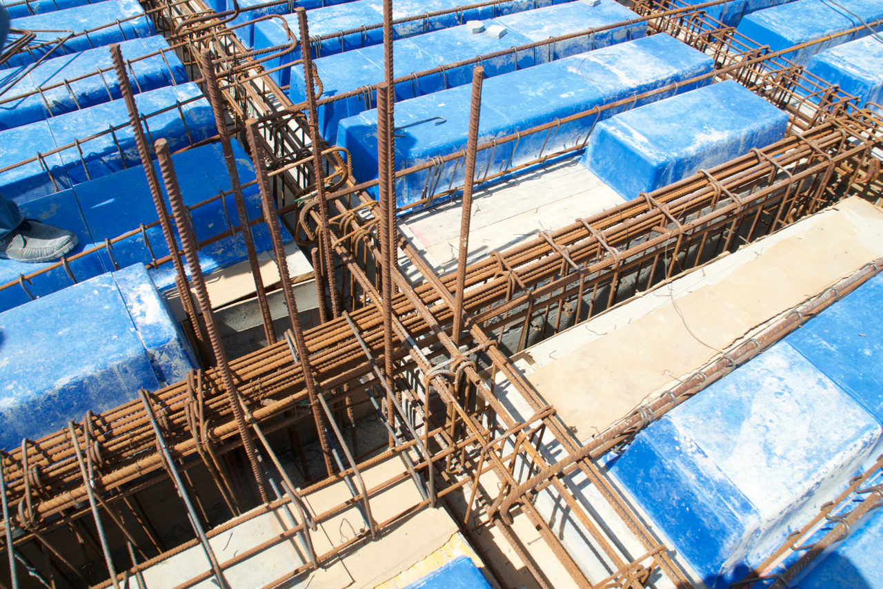 Construction in Tunisia